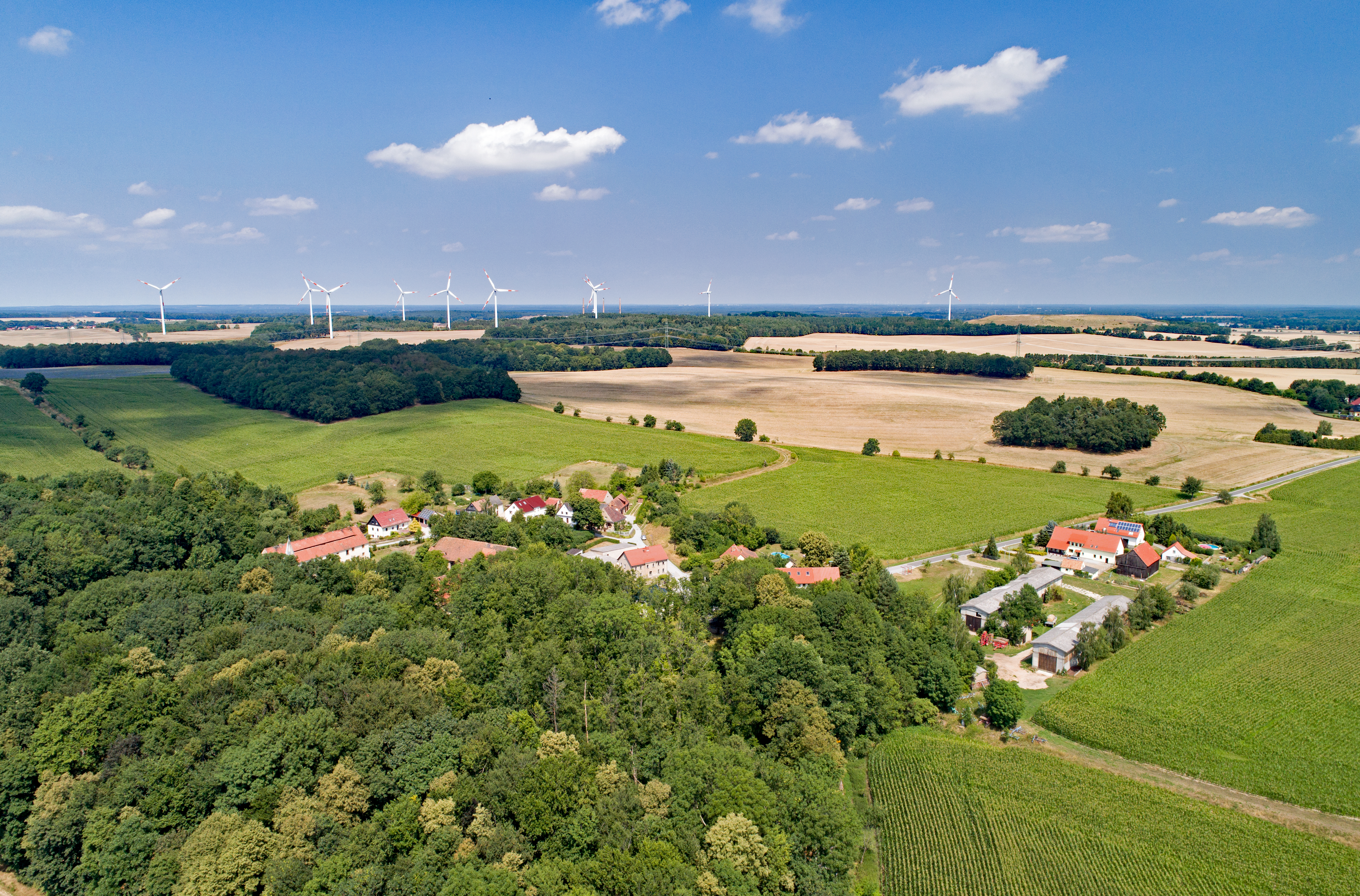 Weidlitz (Neschwitz, Saxony, Germany)